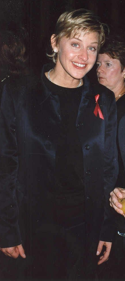 Photo of Ellen DeGeneres outside the Emmy Awards